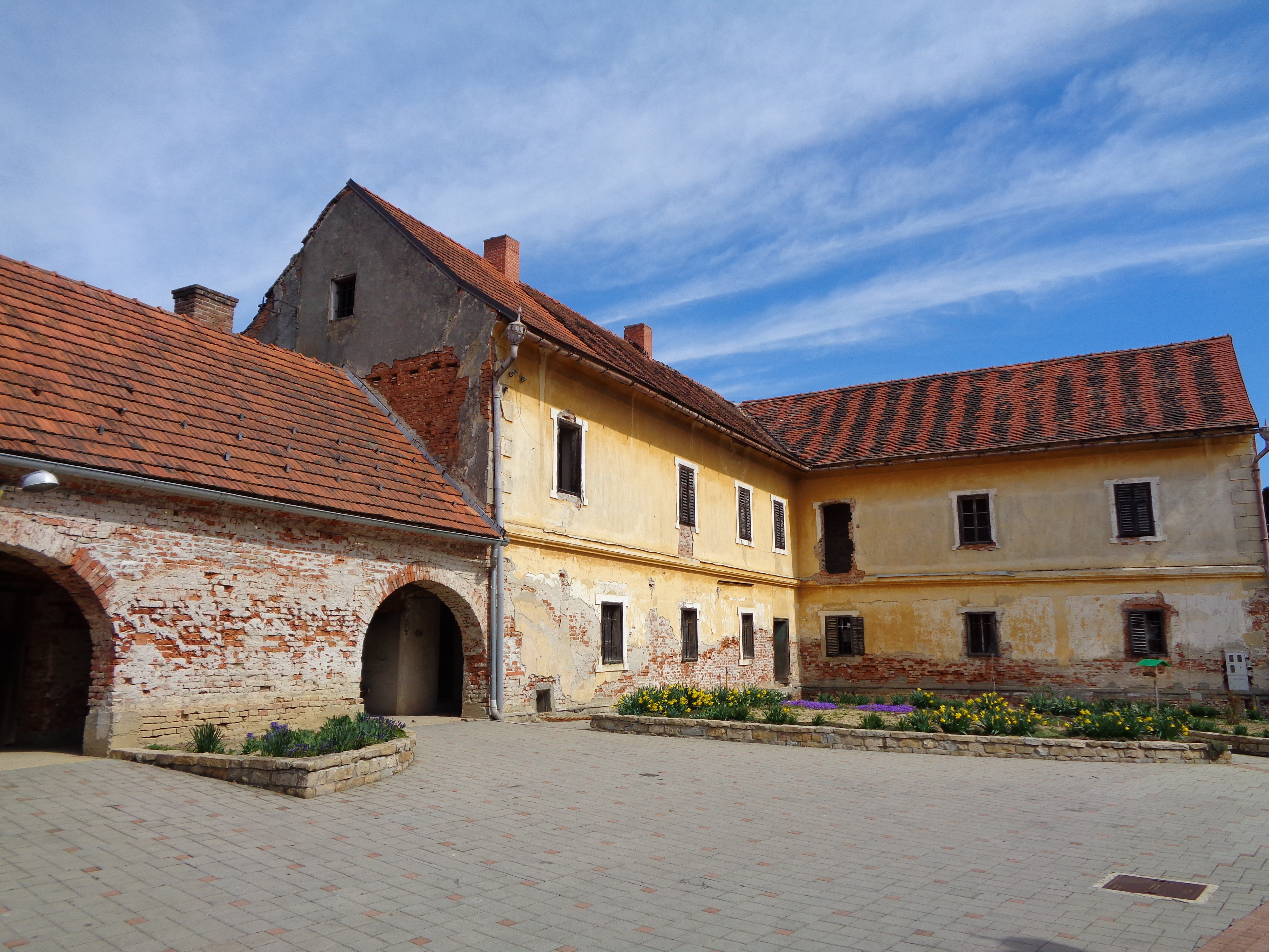 Zichy-Terbocz Manor in Železna Gora, Medjimurje County (Croatia) - inner courtyard